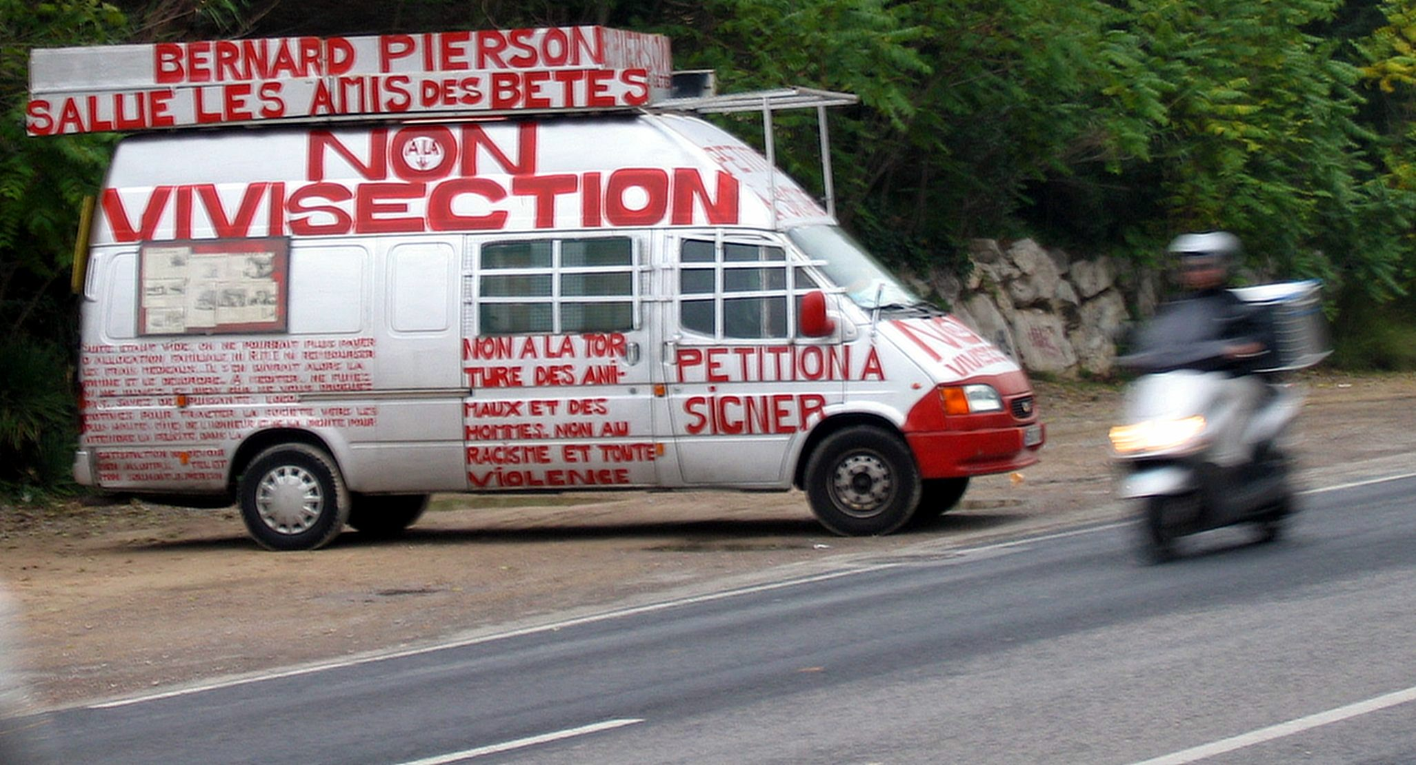 Photo illustrating a form of activism. Here against vivisection. This truck is regularly visible on the roads of Montpellier, France.